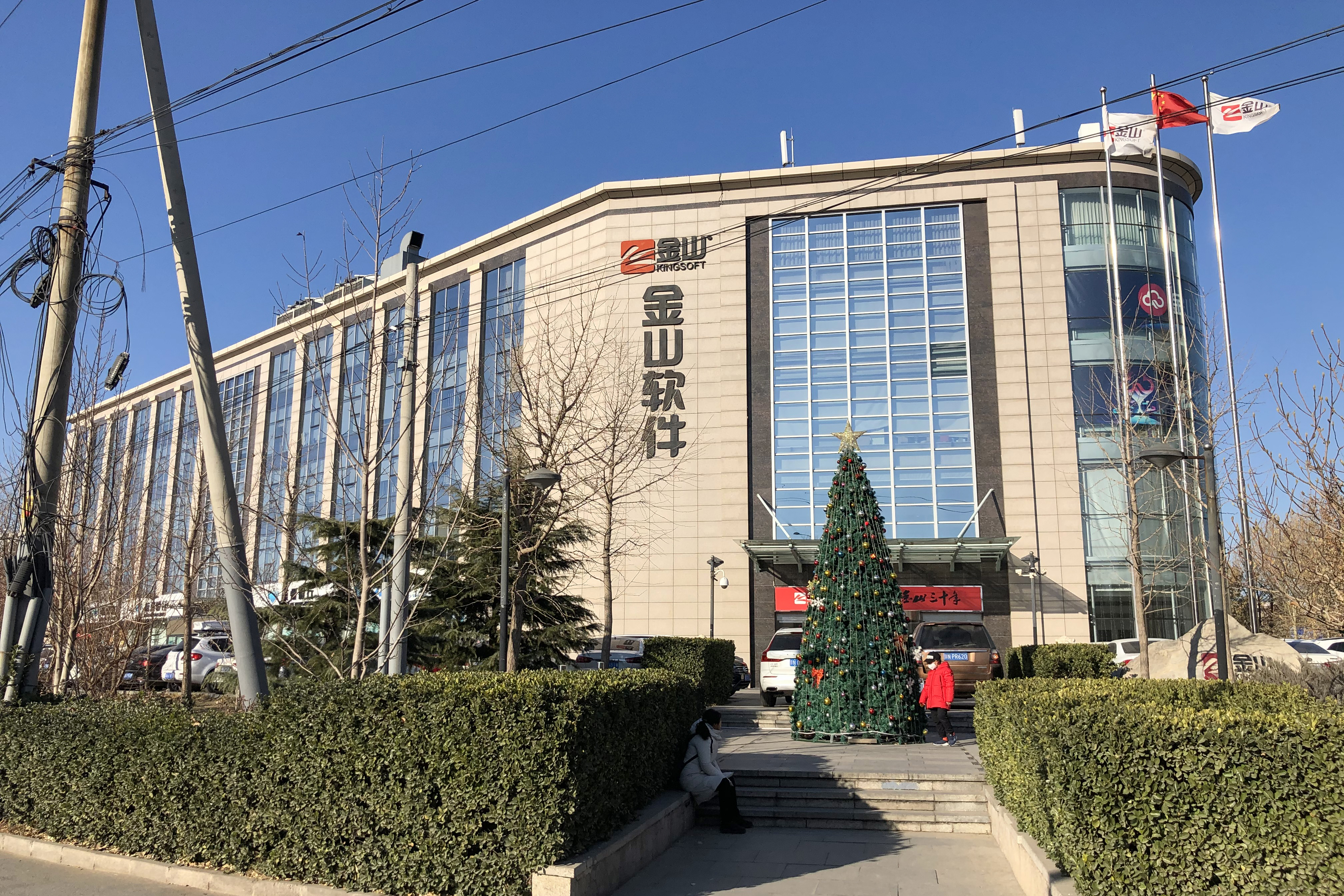 East of Shangdi.